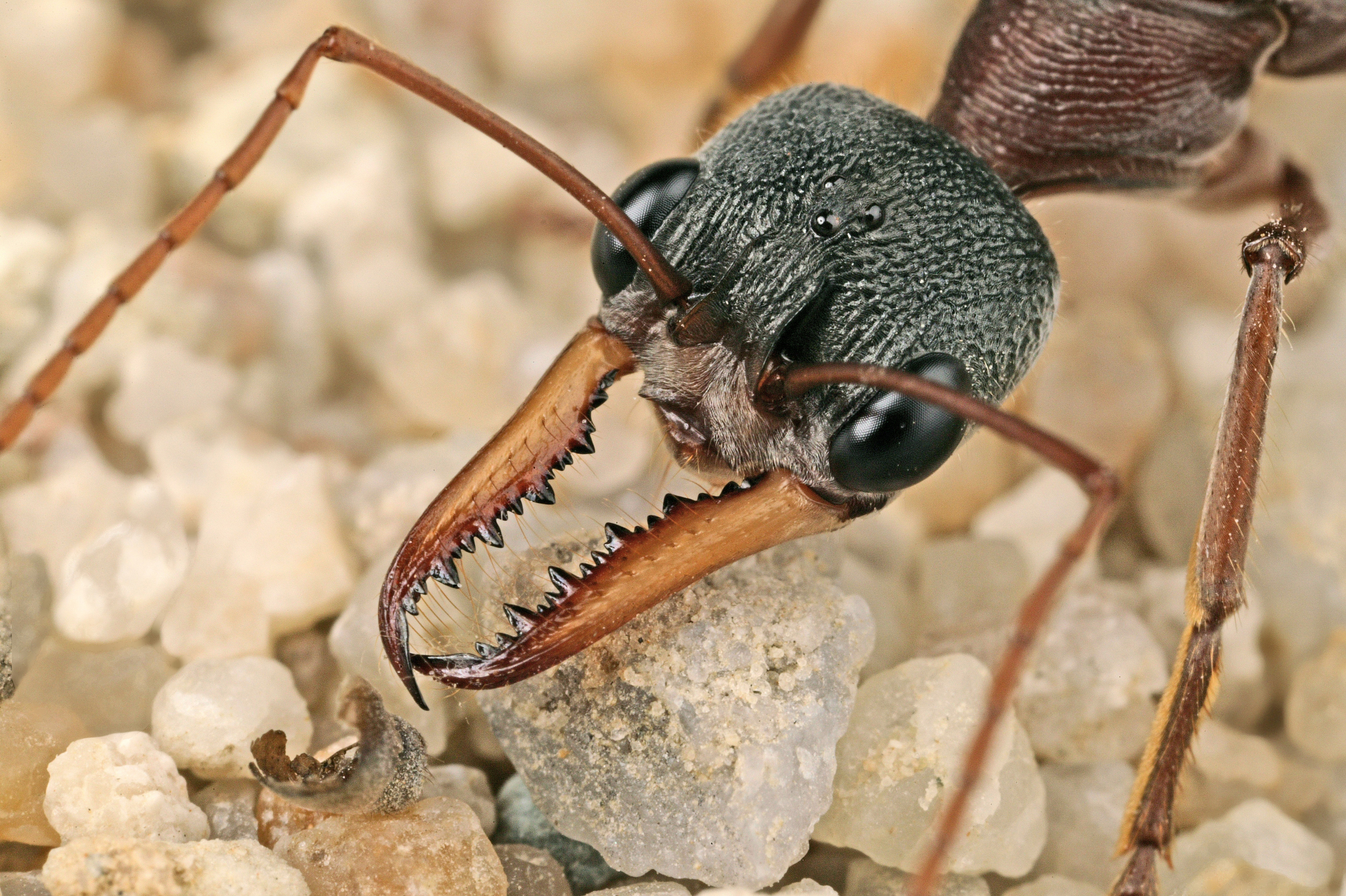 A bull ant, Myrmecia species. Photo credit: David McClenaghan